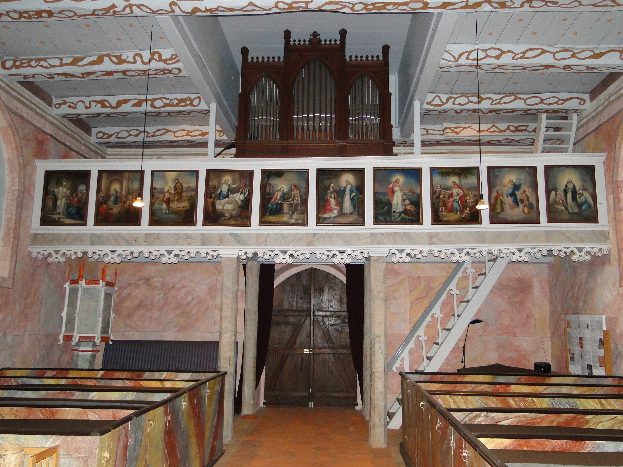 Church in Wamckow, district Ludwigslust-Parchim, Mecklenburg-Vorpommern, Germany Pipe organ's matroneum